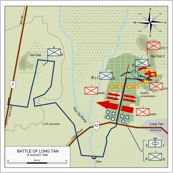 Map illustrating the Battle of Long Tan, which took place on 18 August 1966.